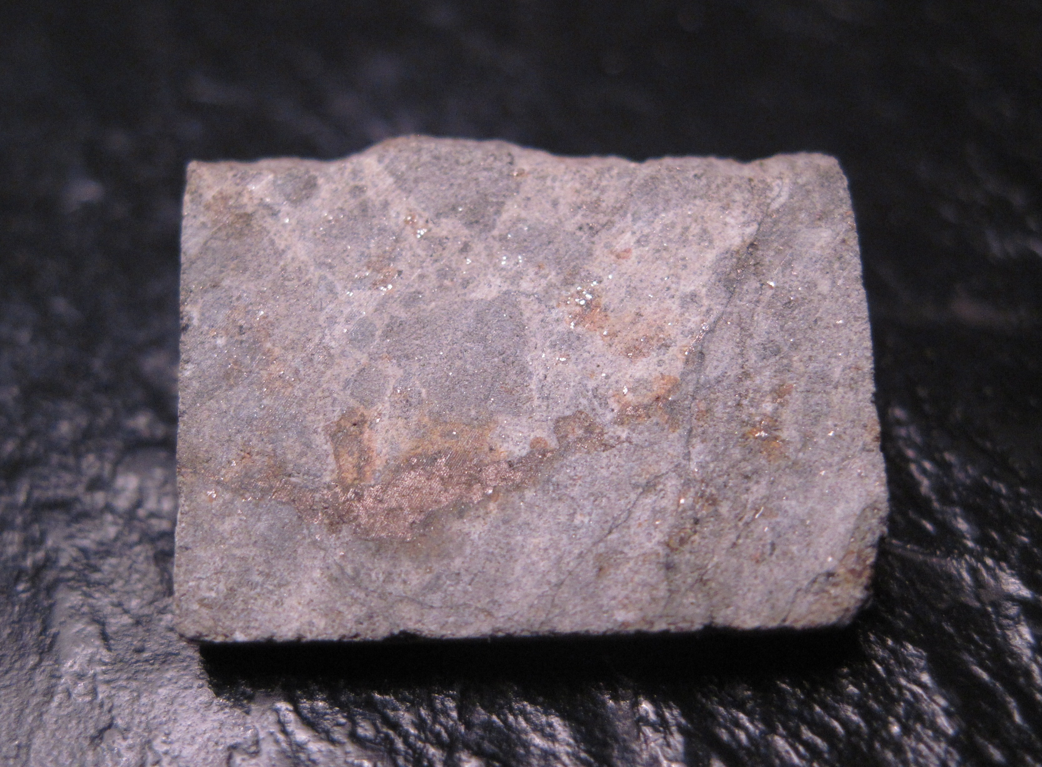 On December 10, 1871, six stones were witnessed to fall in Sindanglaut, West Java, Indonesia. This rare fall is a LL6 chondrite and the majority of the 11.5 kgs TKW is held by the Bandung Geological Museum and the Paris Museum of History. This partial slice weighs 2.43 grams and shows off the nice brecciated matrix.